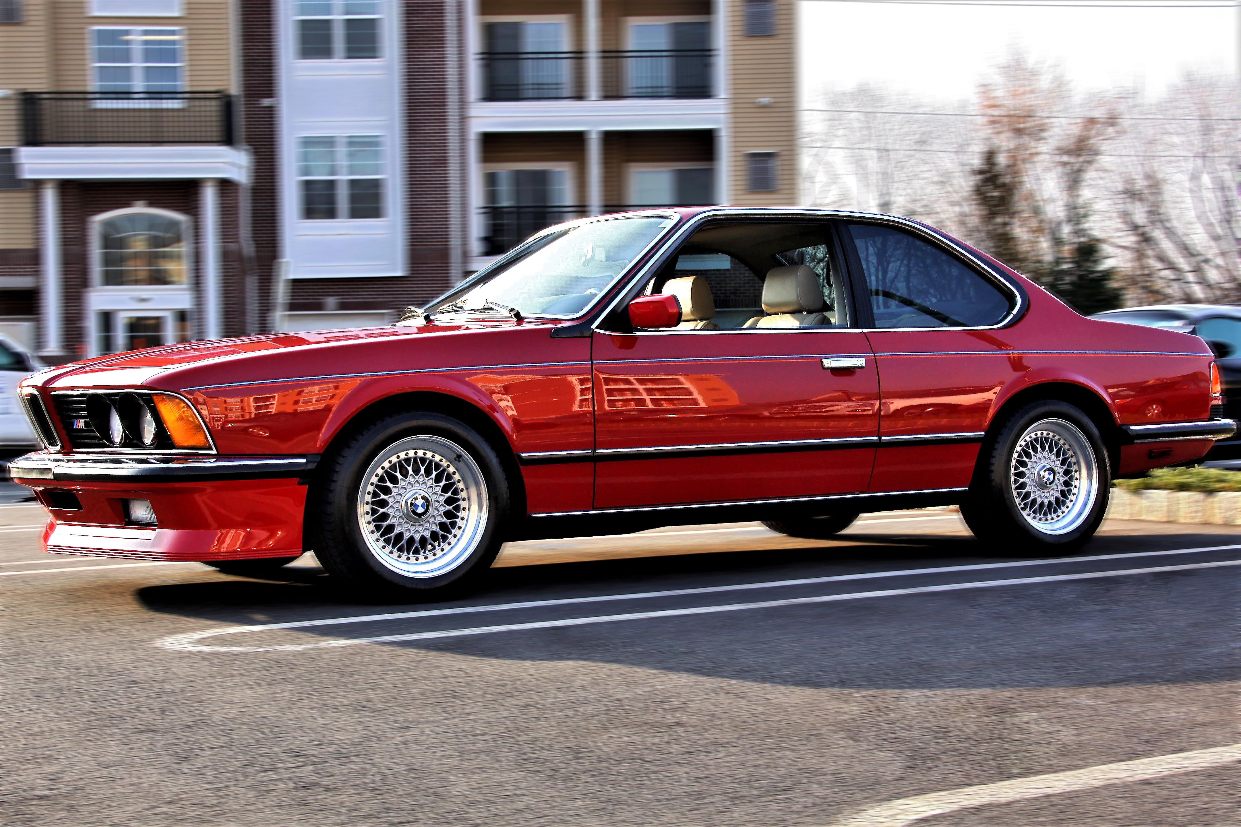 1985 BMW M635CSi. Original BBS RS007 210 TR 415 wheels and Michelin TRX 240/45VR415 tires